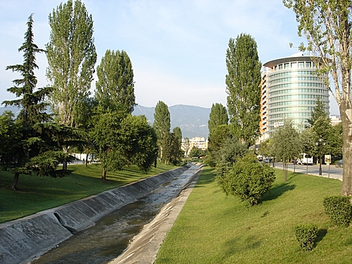 Lana river after the rebirth